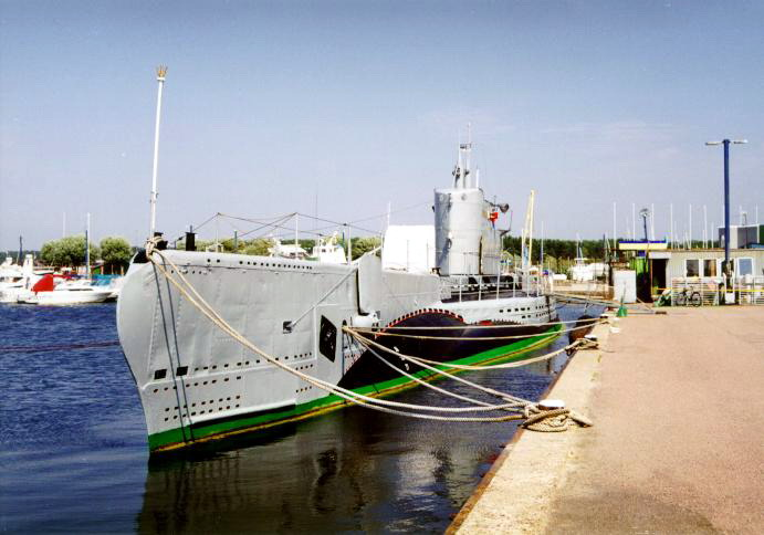 EML Lembit, a Kalev class Estonian submarine (Tallinn, Estiona)